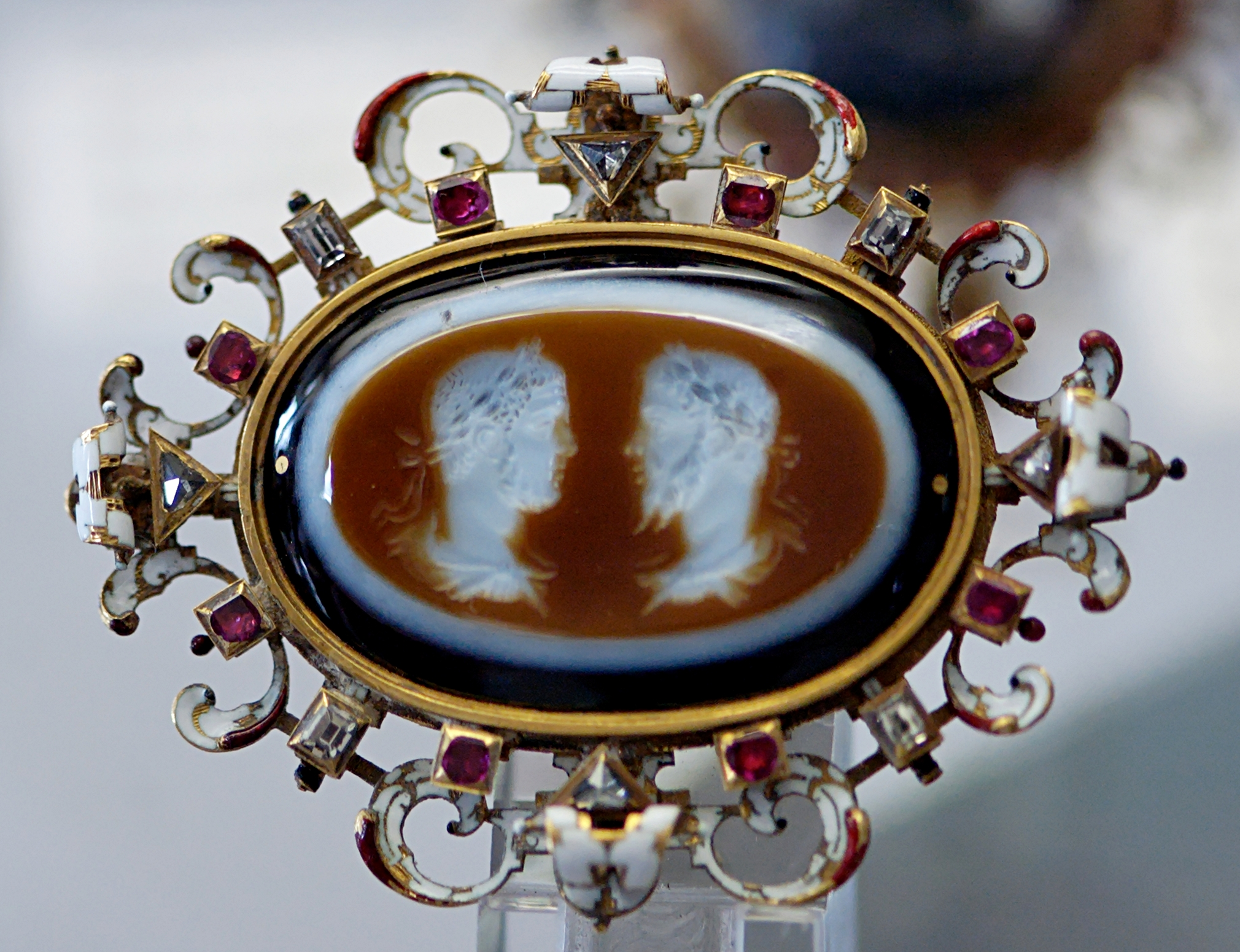 Geta and his brother Caracalla crowned with laurel. Sardonyx intaglio in three layers, Roman artwork, ca. 209; mount: enameled gold, rubies and diamonds, 16th century.